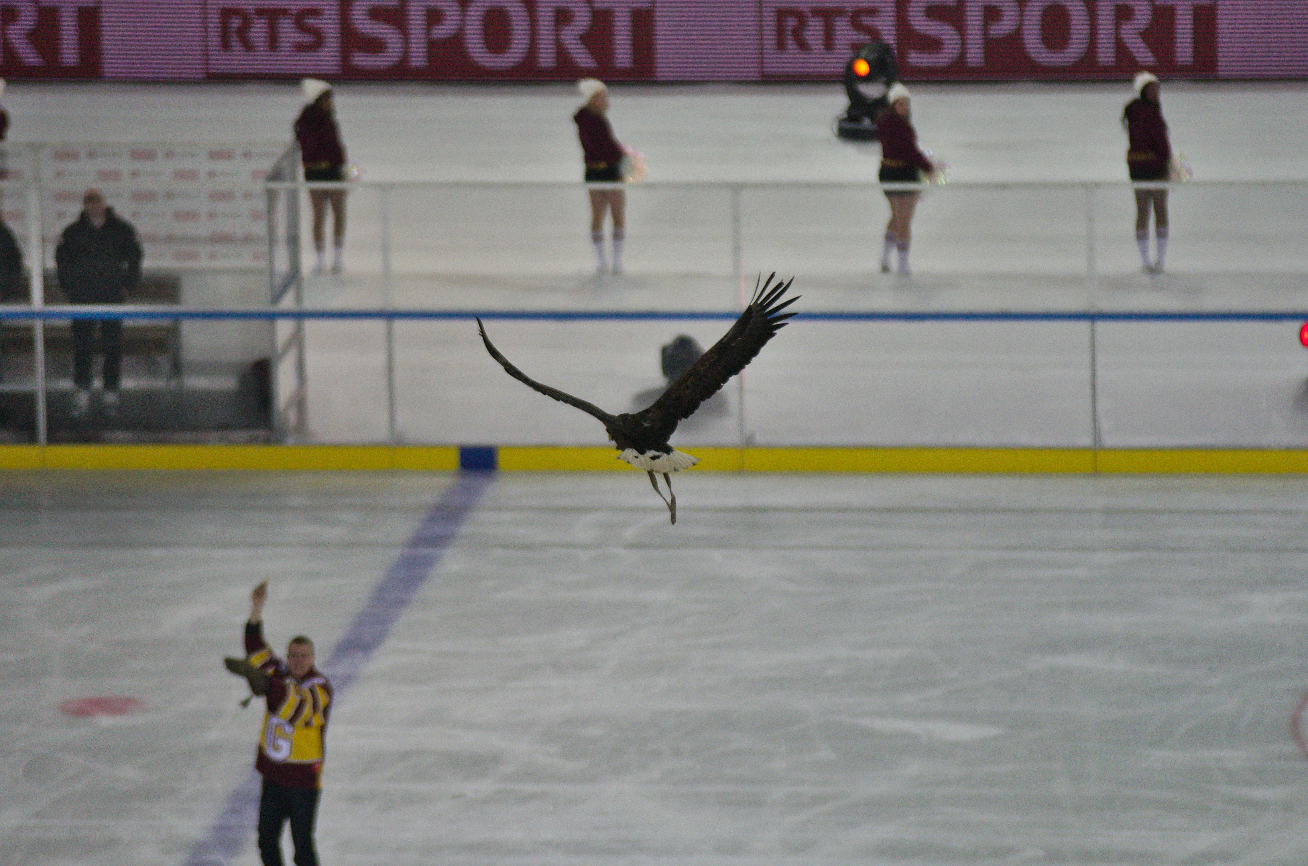 Winter Classic - GSHC-LHC - 20140111 - Aigle